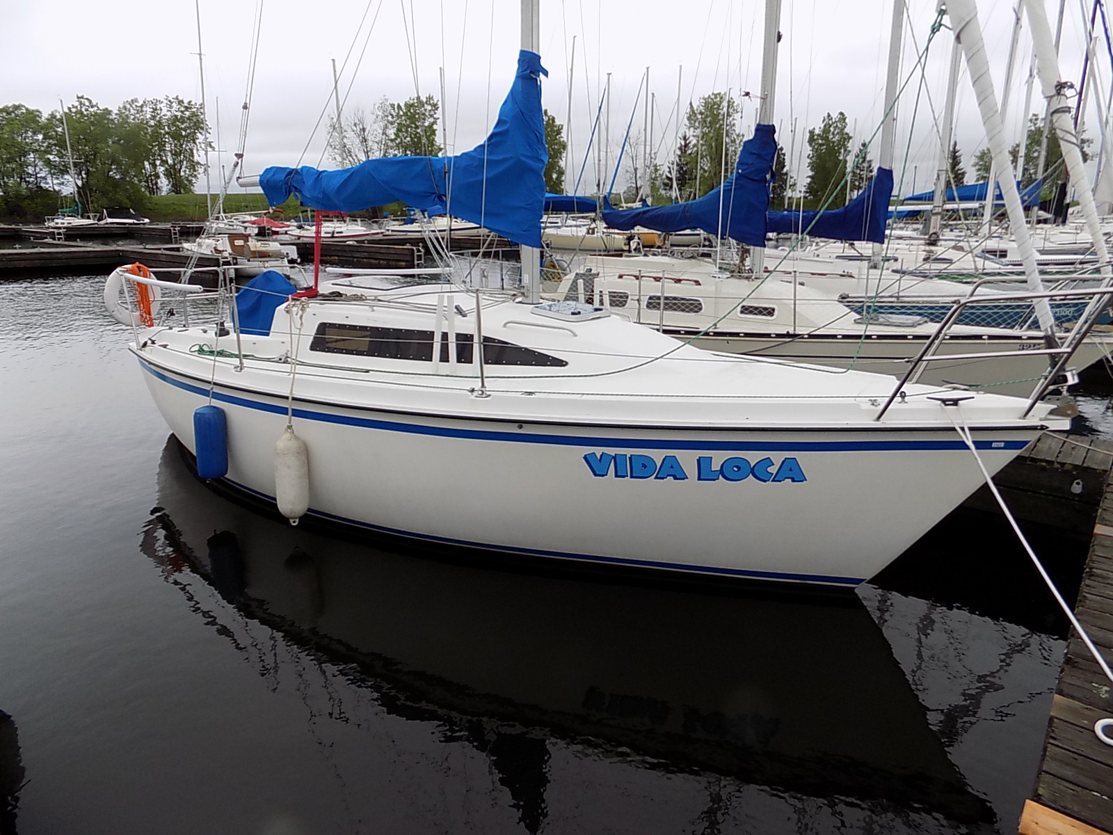 A Sandstream 26 sailboat named Vida Loca at the dock.